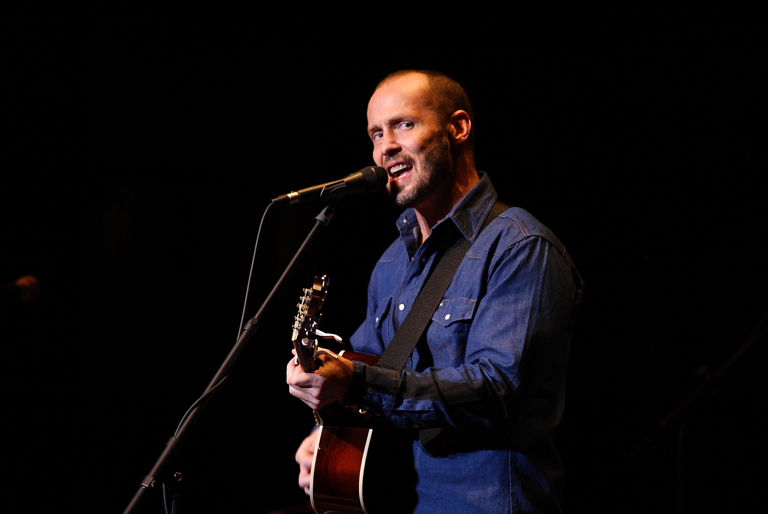 Paul Thorn at The Grand tonight. A great performer, excellent sense of humor and a superb start to the night of music.